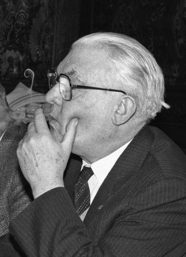 Albert Schouteet (1909-1991), Belgian historian and archivist